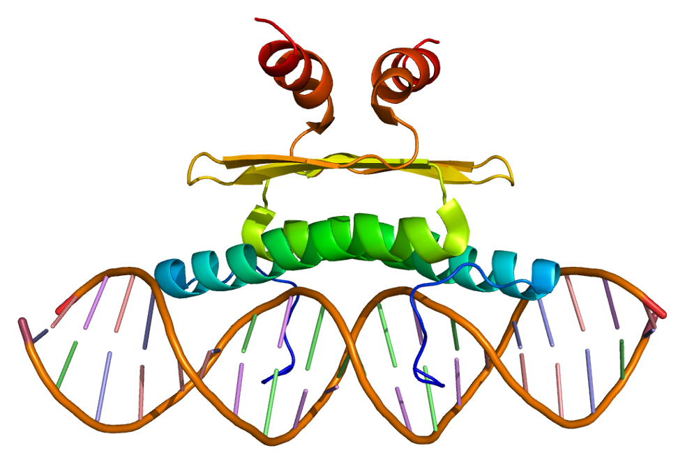 Structure of the MEF2D protein. Based on PyMOL rendering of PDB 1c7u.